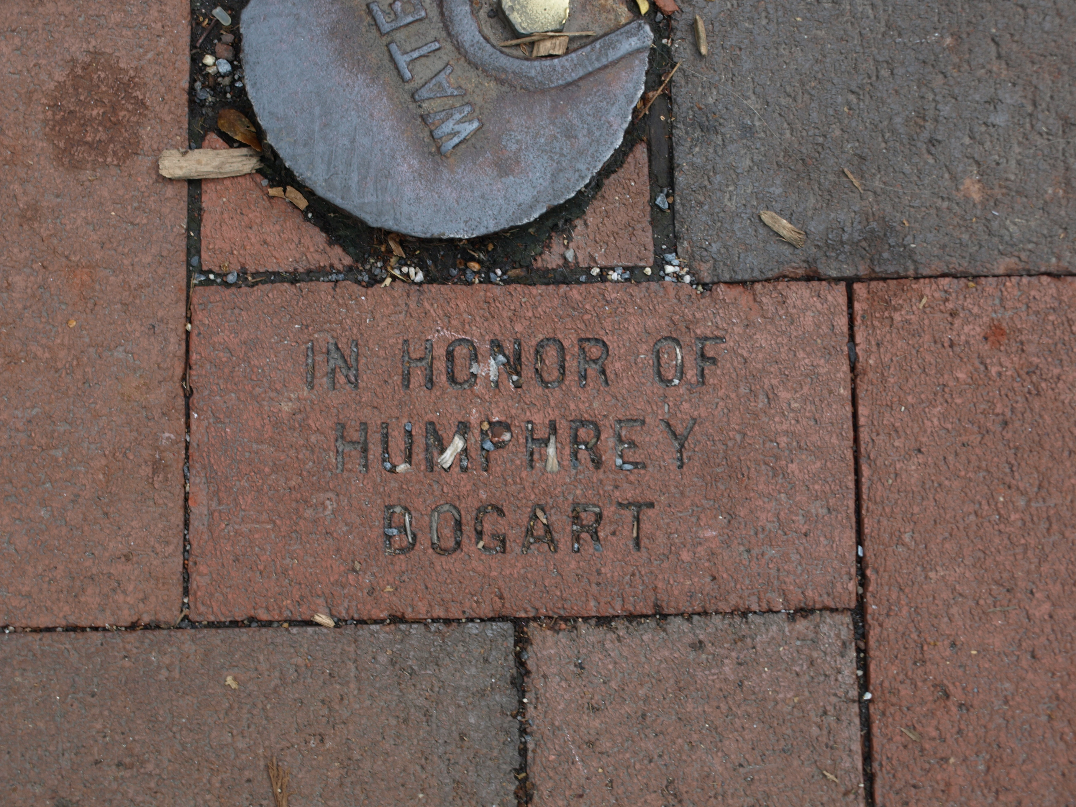 Humphrey Bogart's Brick in Pennsylvania State University (2009)